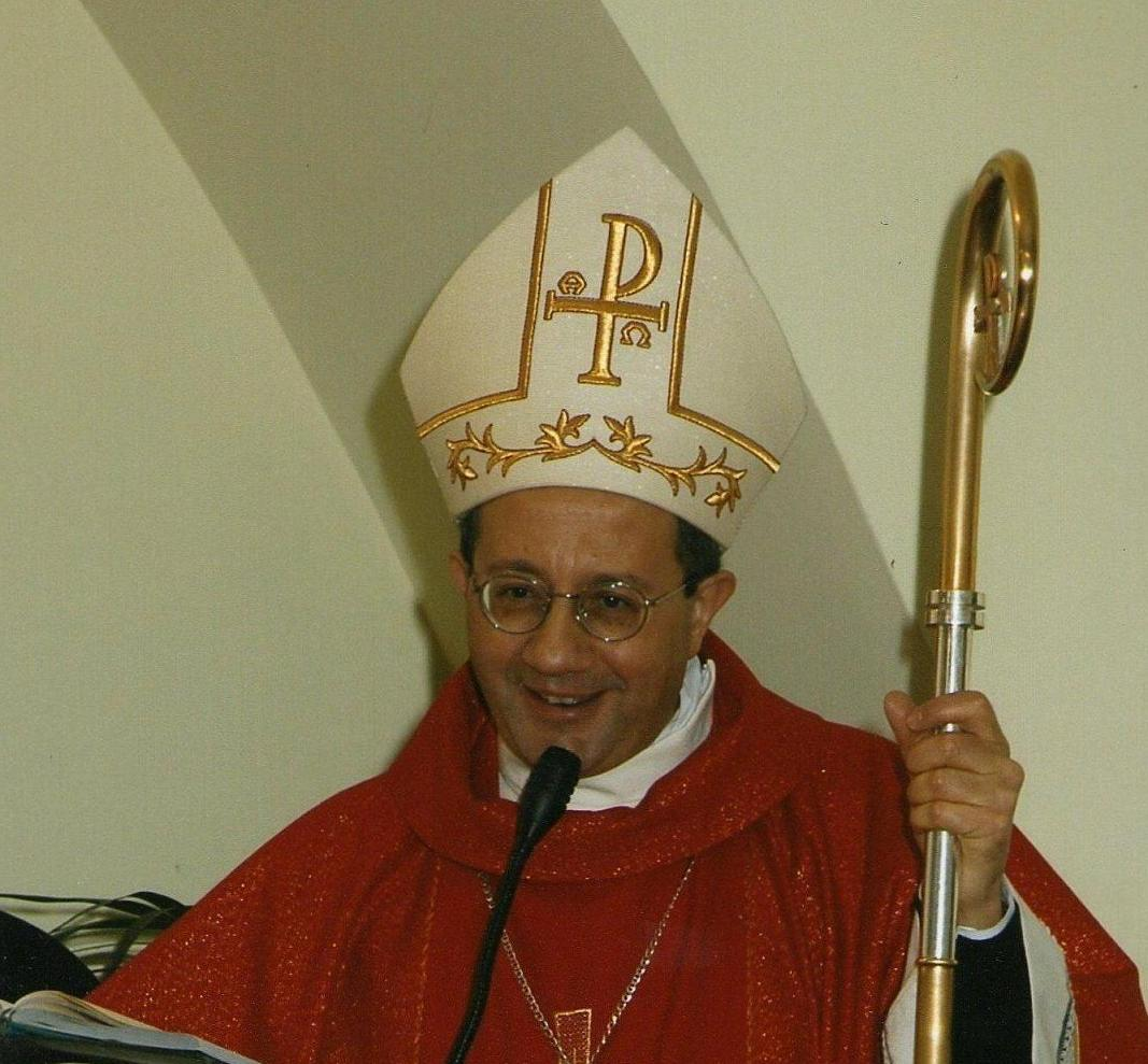 Bruno Forte, archbishop of Chieti-Vasto, 2006